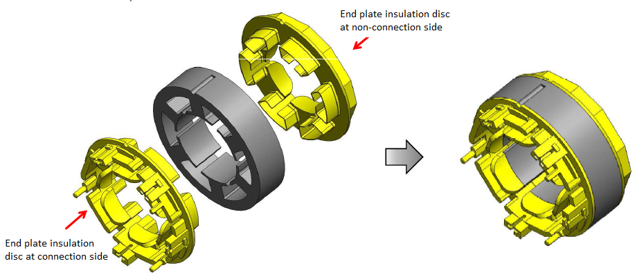 Endscheibenisolierter Vollblechschnittstator